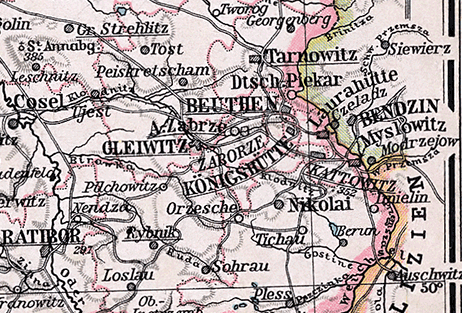 Detail from a map of Silesia.